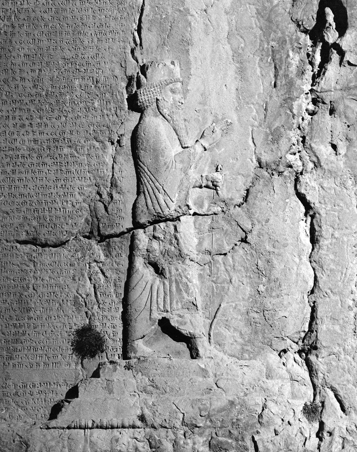 Relief of Darius I at his tomb in Naqsh-e Rostam, Iran.